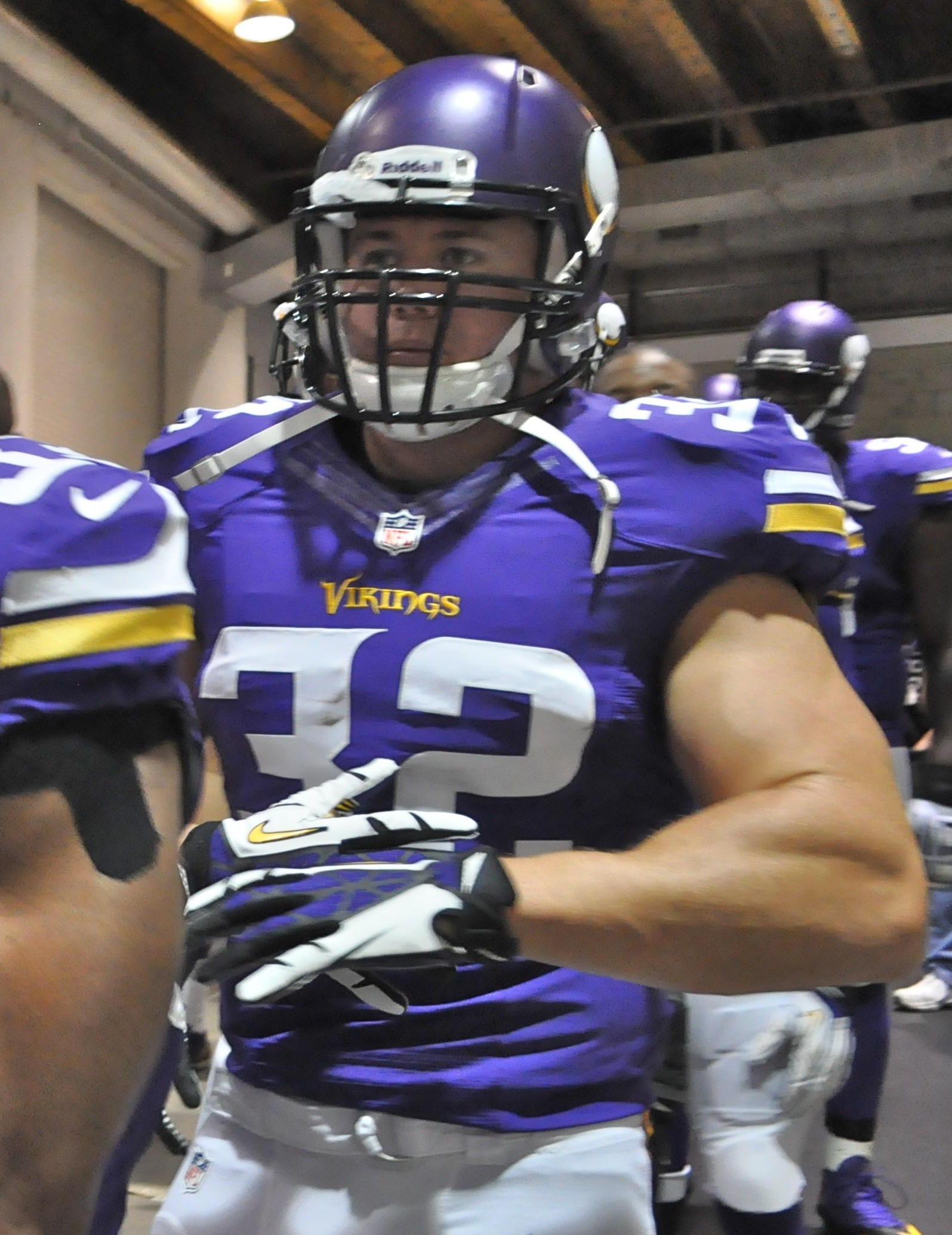 Minnesota Vikings running back, Toby Gerhart, in 2013.